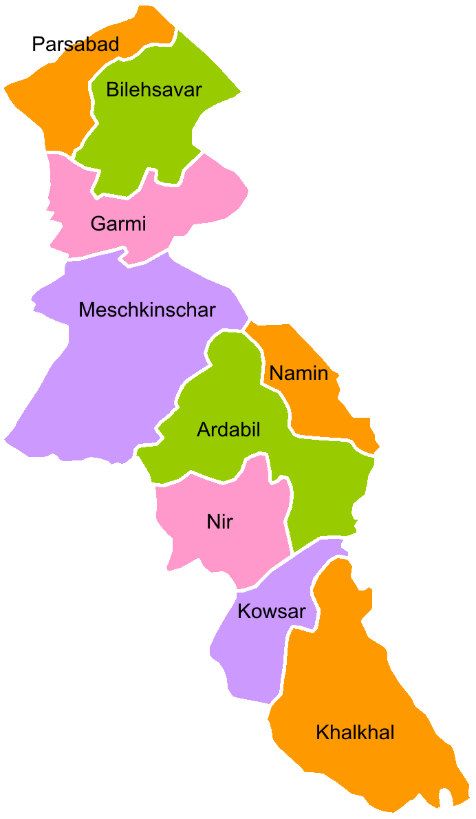 Counties of the iranian province Ardabil - with Names